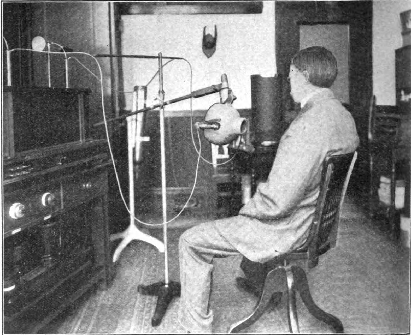 A patient undergoing x-ray treatment for tuberculosis in 1910. The lead shield around the tube limits the rays to the chest area of the patient, but no other precautions are taken against overexposure; the dangers of radiation were not recognised at the time. The source says the normal treatment for tuberculosis was 7 to 10 minutes exposure, 3 times per week. The x-rays were alternately applied to the chest and the back to reduce skin burns.